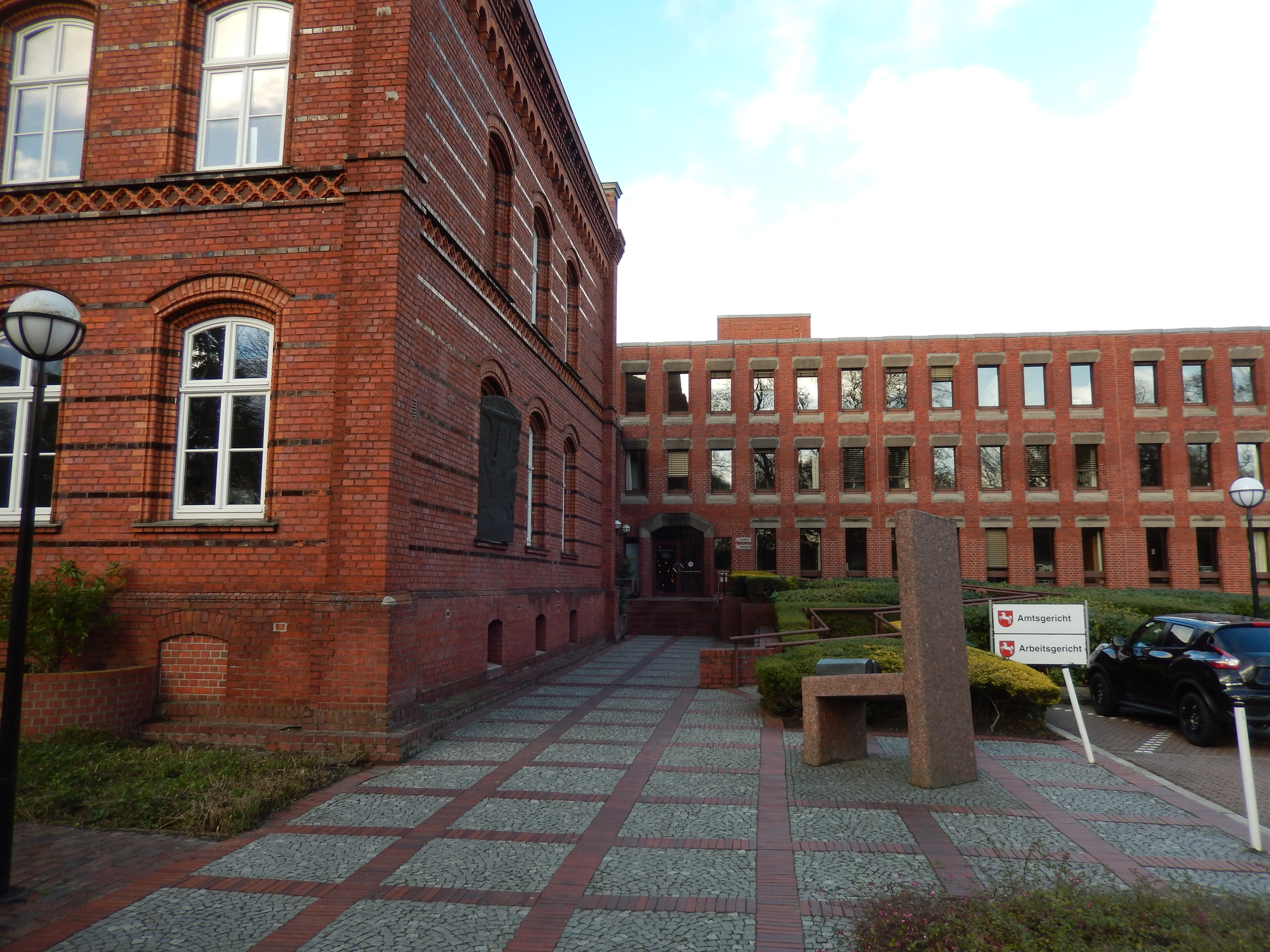 Entrance of Amtsgericht (court) in Wilhelmshaven, Germany.